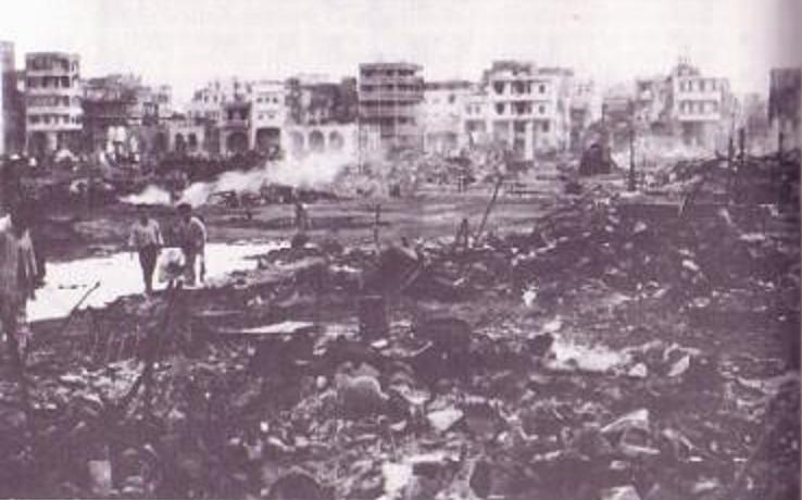 Destruction in Port Said because of the 1956 Suez war